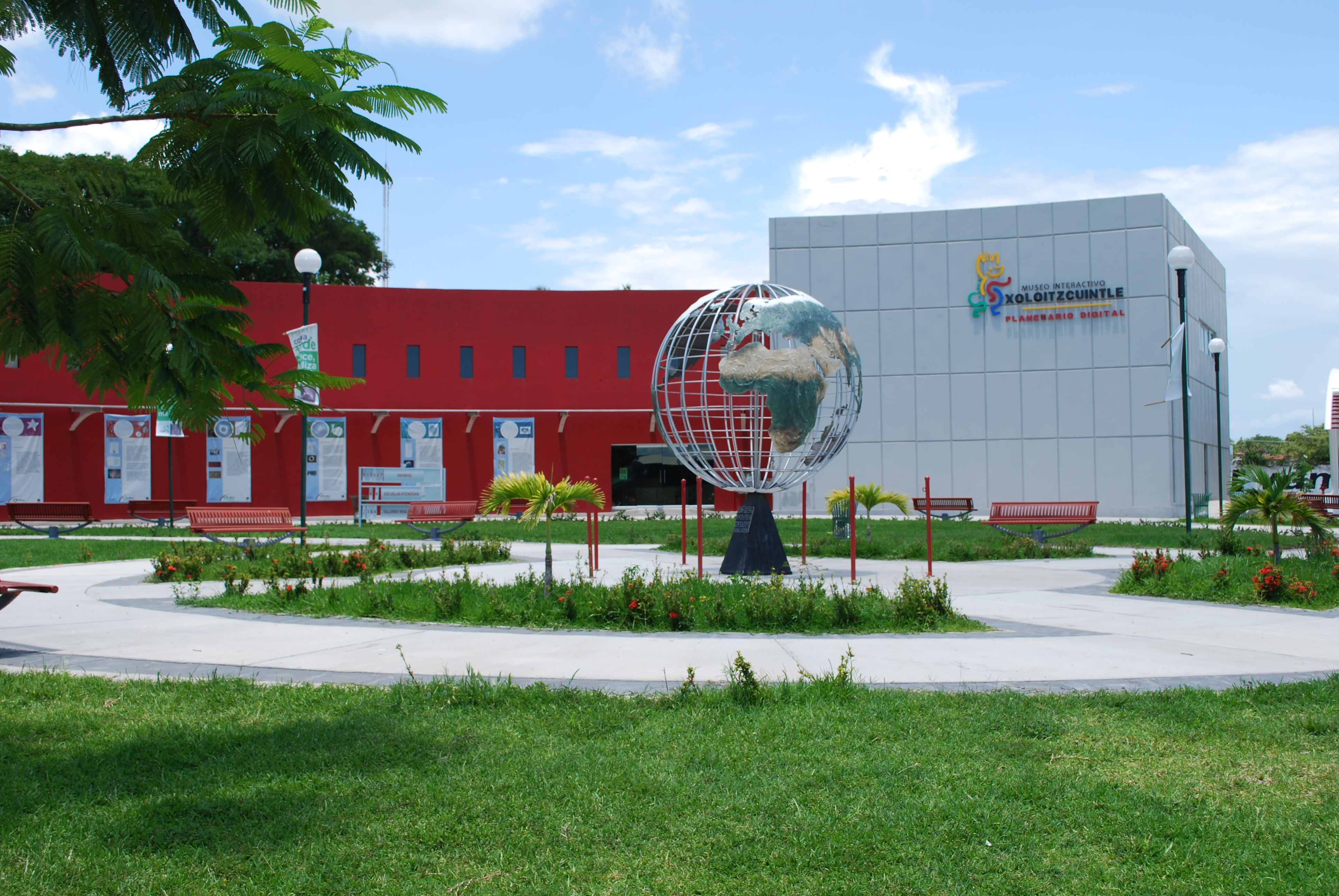 The Xoloescuintle Interactive Museum in Parque Piedra Lisa in Colima Mexico